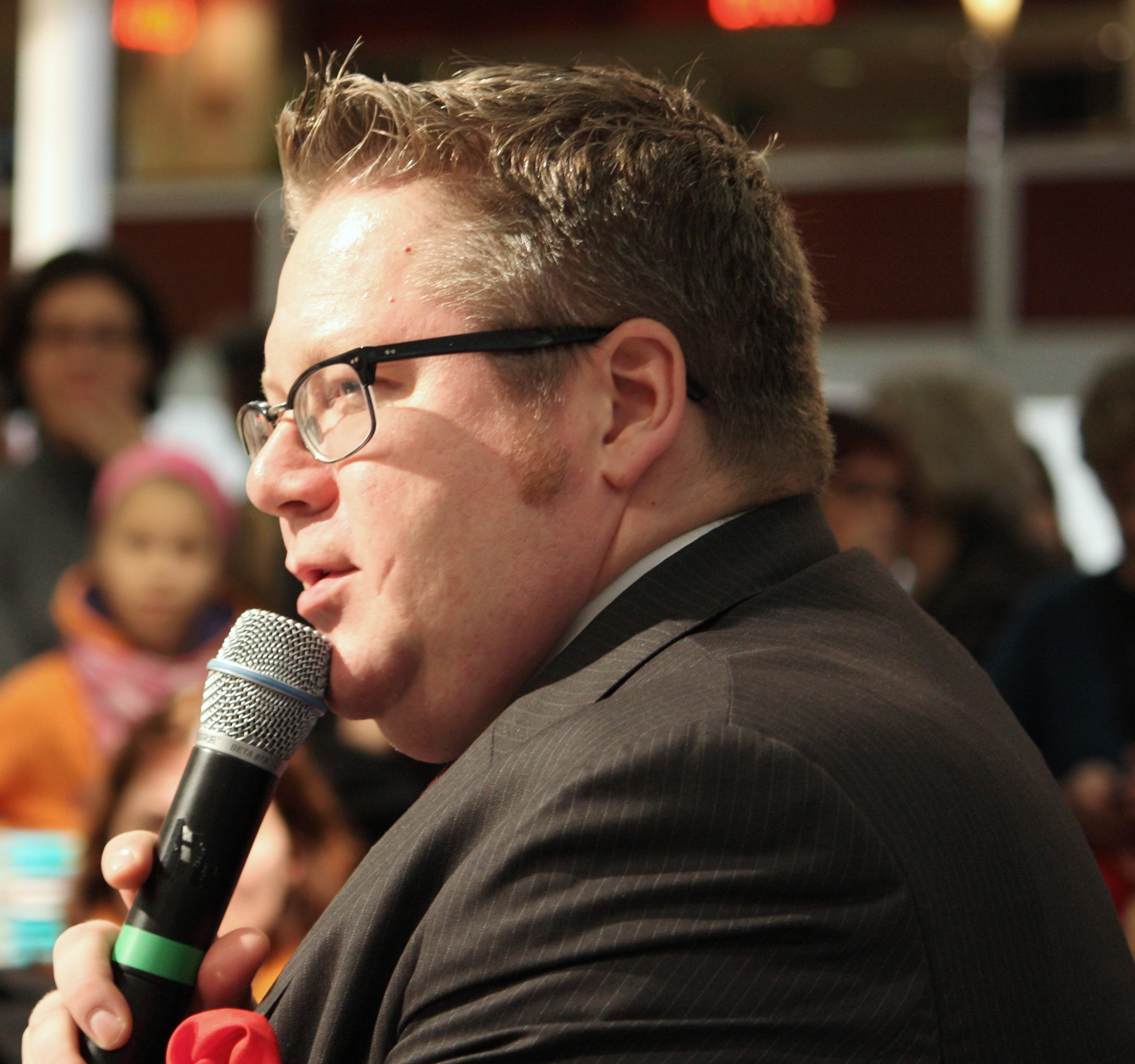 Jan Erola, journalist, musician and head of the Finnish book publisher Ajatus Kirjat at the Helsinki Book Fair 2010.